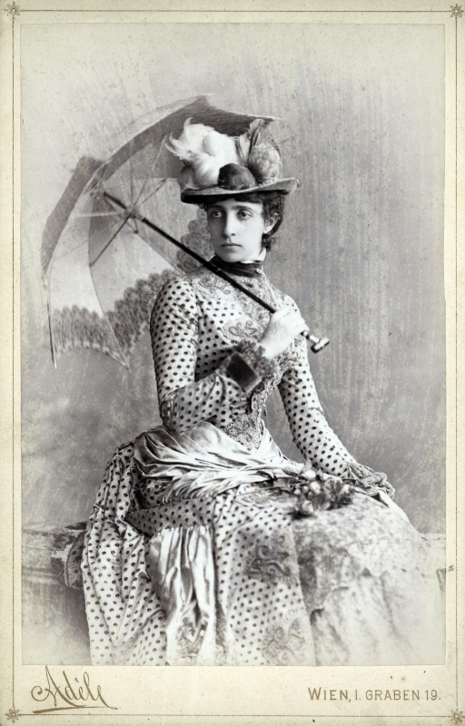 Maria Teresa of Portugal, archduchess of Austria